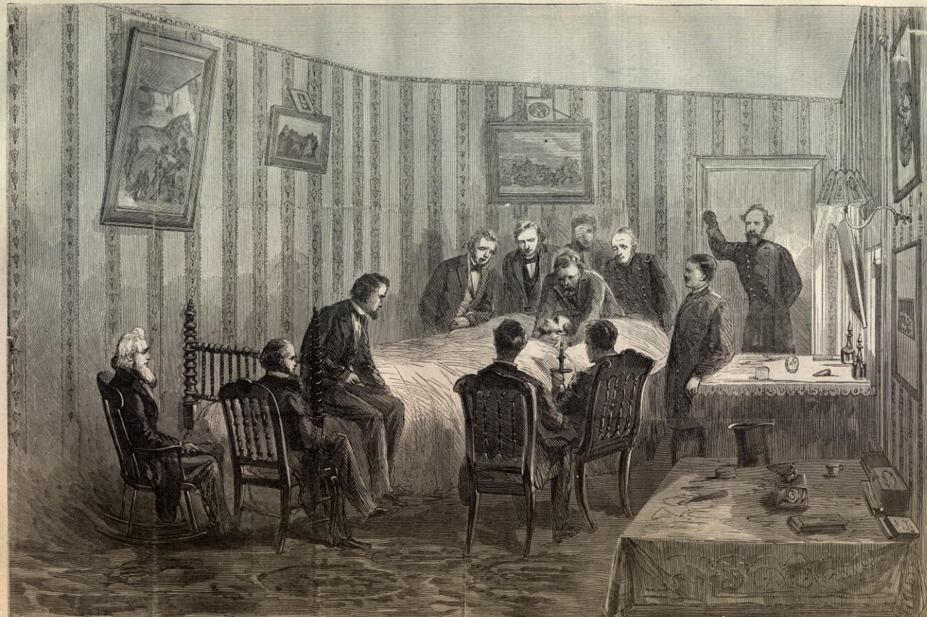 Scene at the deathbed of President Abraham Lincoln. (The names of those surrounding Lincoln)